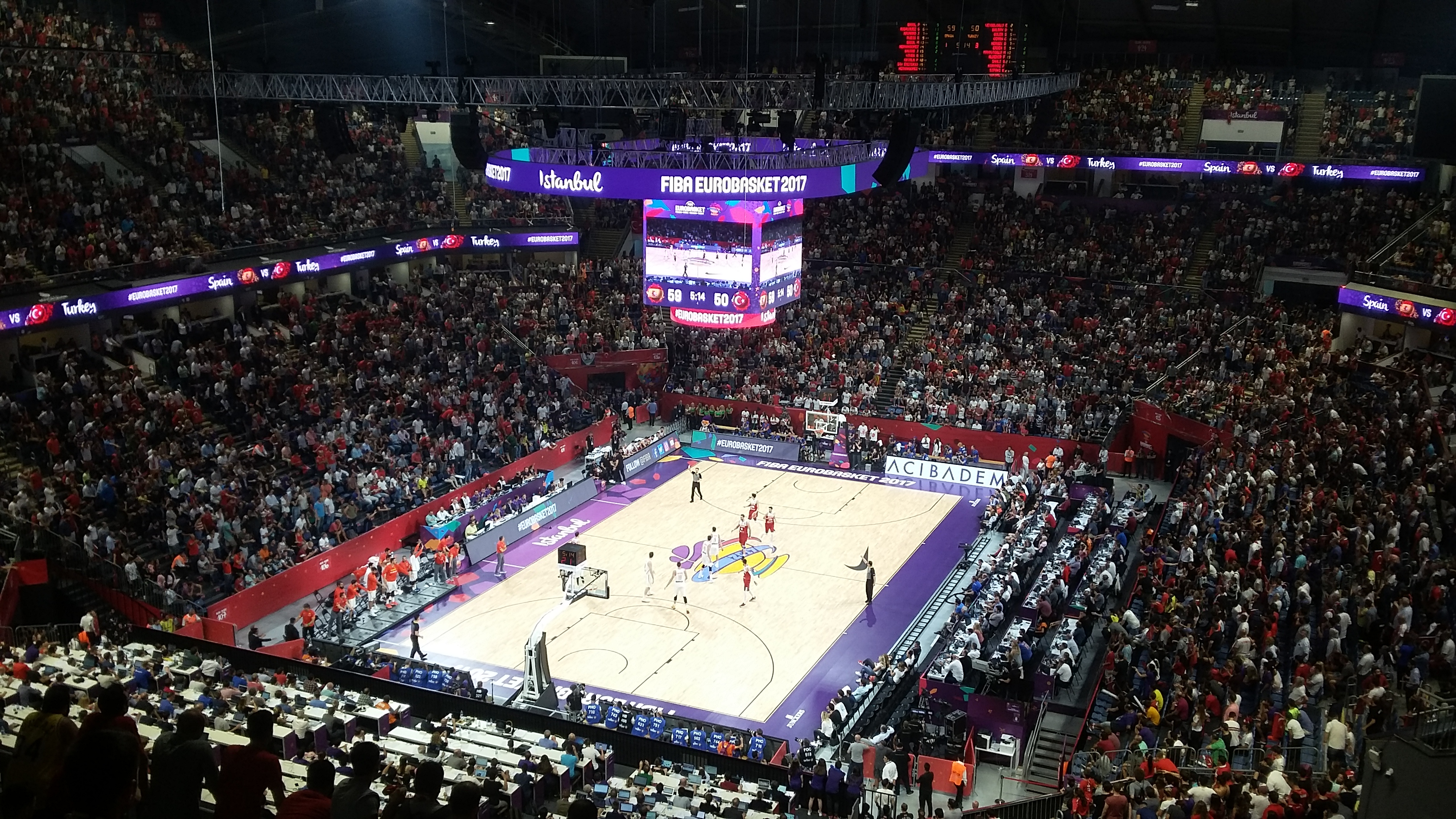 EuroBasket 2017 Top 16 Spain vs Turkey, 2017-09-10, Sinan Erdem Dome 2017-09-10.